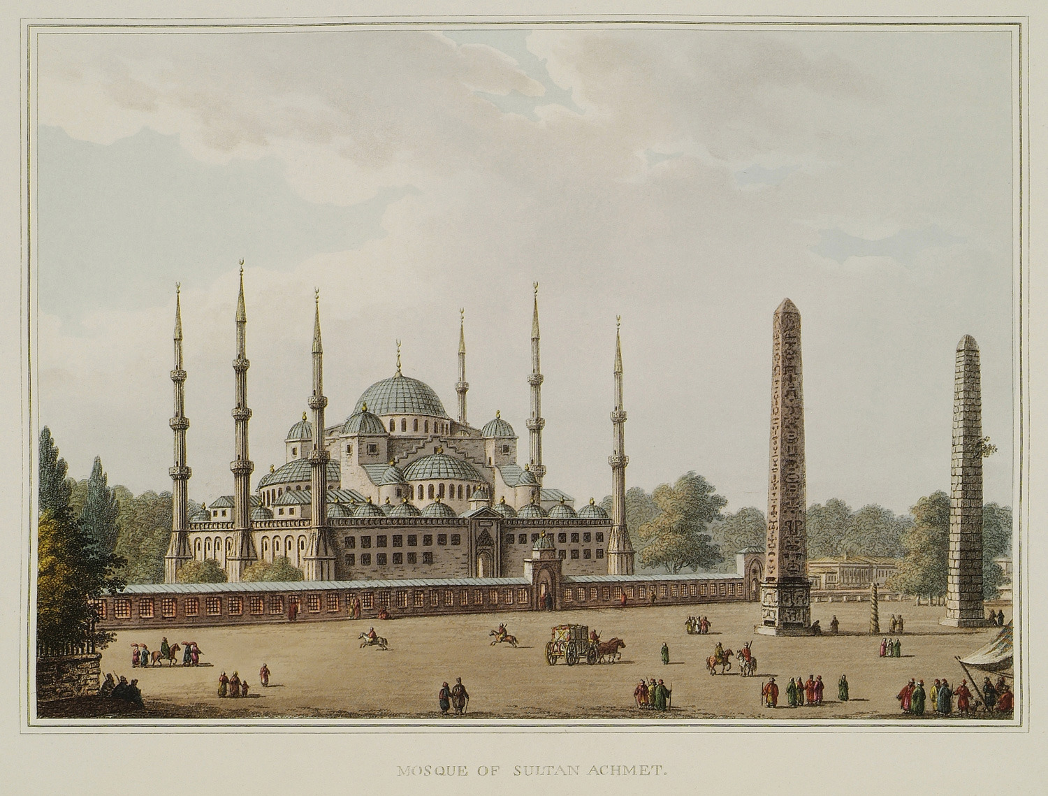 "The mosque of Sultan Ahmed I and the Hippodrome of Constantinople. In the foreground, the Obelisk of Theodosius, and the Walled Obelisk. Between them, the Serpent column" (Description adapted from Travelogues